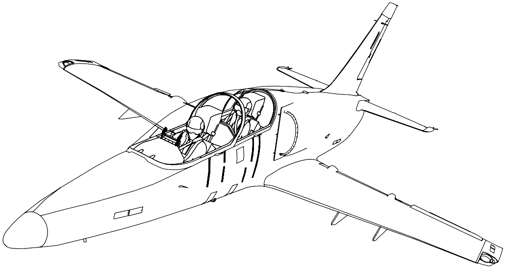 Aero Vodochody L-39NG concept drawing